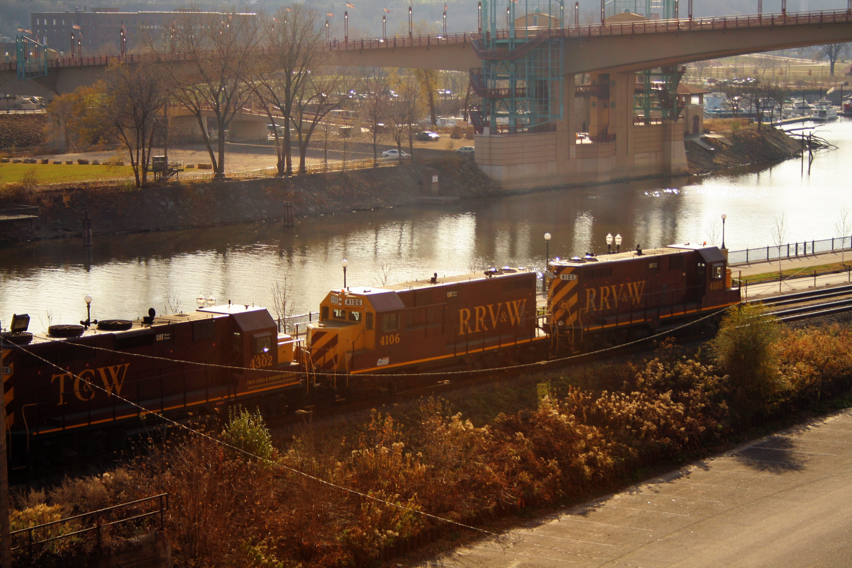 Wabasha street bridge, Red river valley & western railroad, Saint Paul, Minnesota. Two RRVW GP15Cs lead a TCWR GP30C.